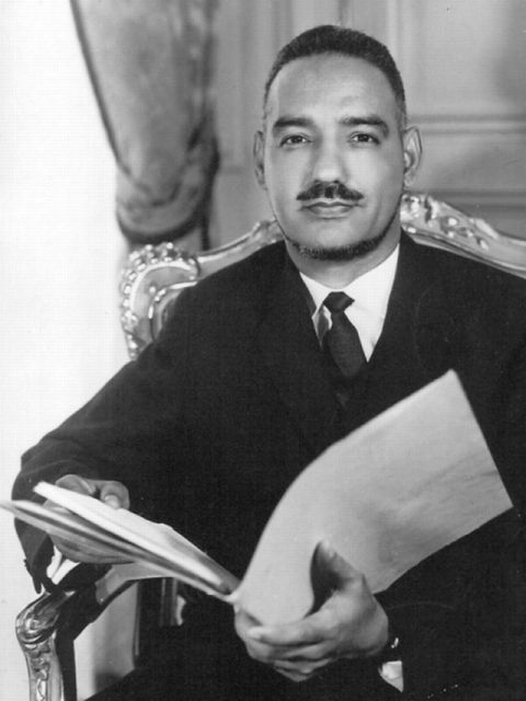 Moktar Ould Daddah (1924-2003), Prime minister (1959-1961) and President (1961-1978) of Mauritania